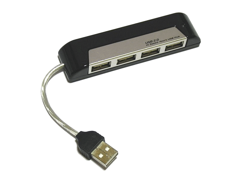 Sunwa supply USB-HUB217BK is a USB hub. It has four USB ports.